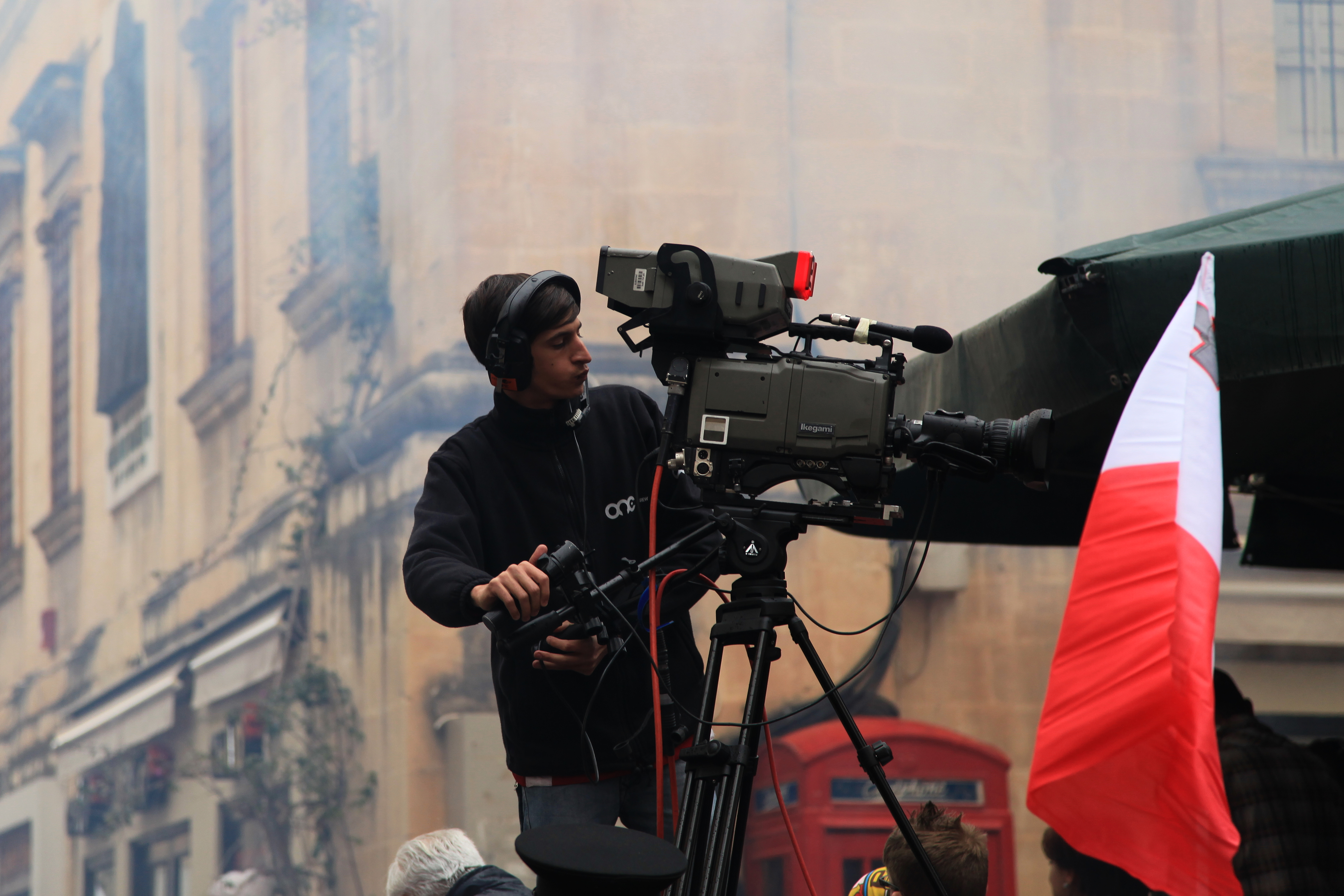 Election celebrations at Triq ir-Repubblika in Valletta, Malta